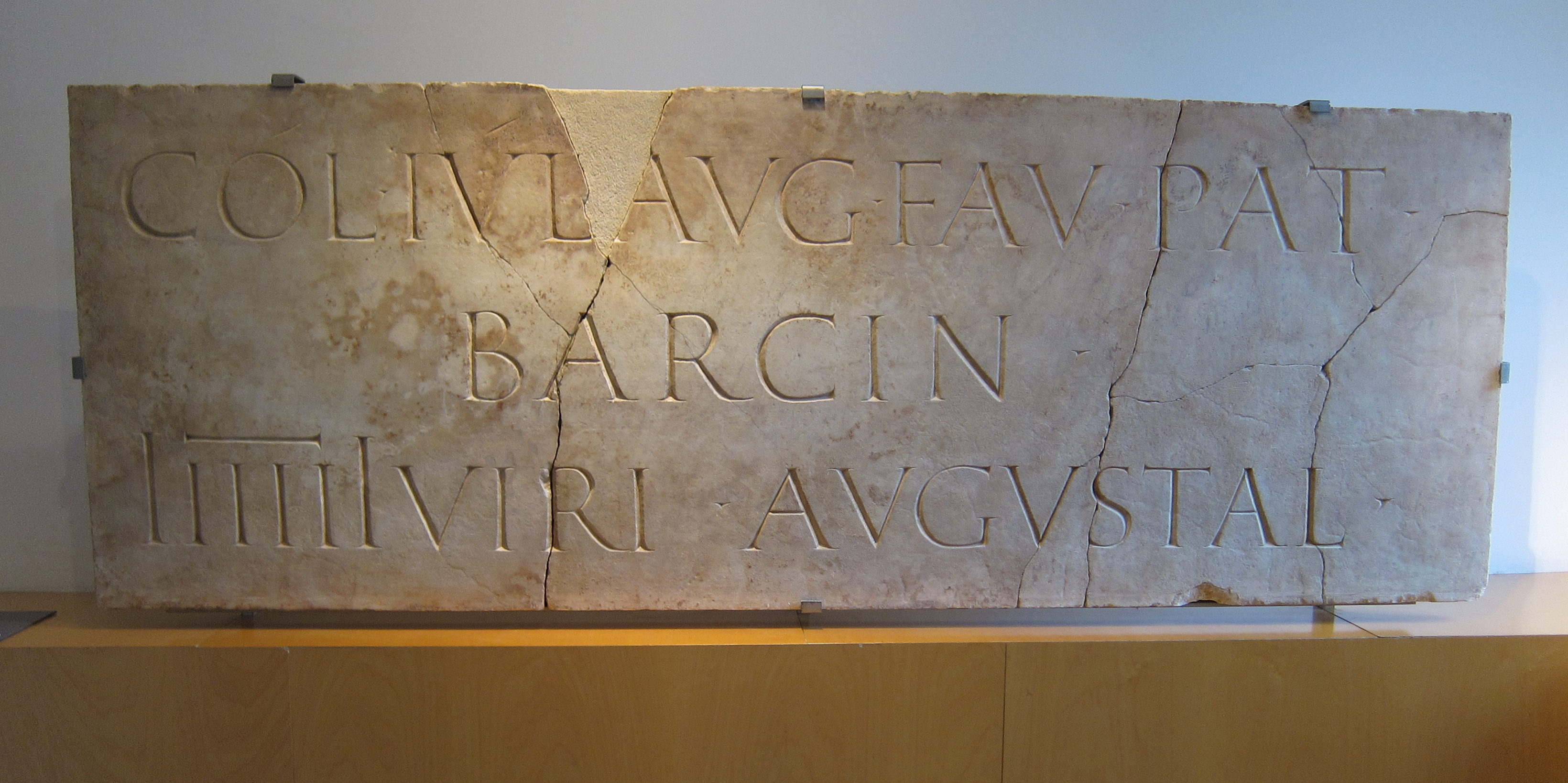 A Roman marble with Latin text ("COL IVL AVG FAV PAT BARCIN" short for "Colonia Julia Augusta Faventia Paterna Barcino") describing Barcino, the ancient name for the Catalan city of Barcelona. Around 10 BC the Roman Emperor Augustus created a colony which later became Barcelona. Remains of the old colony were found during archeological digs. NOTE: Plaque with the city's name, dedicated to the Barcino colony by the Divus Augustus priests. Dated around 110-130 AD, it comes from Plaça de Sant Miquel. It could have been fixed to a door, possibly at the Divus Augustus College, near the baths, or on the gate. The inscription says: AE 1972, 294 = IRC. 4, 76 = IRC. 5, p 113: COL(oniae) IUL(iae) AUG(ustae) FAV(entiae) PAT(ernae) BARCIN(onensium) IIIIII VIRI AUGUSTAL(es)